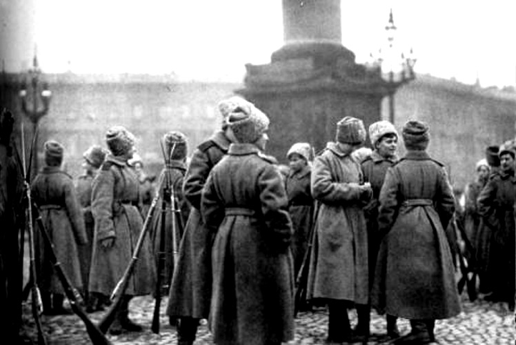 2nd Moscow Women Death Corp Defending Winter Palace. St.Petersburg. November 7th 1917.